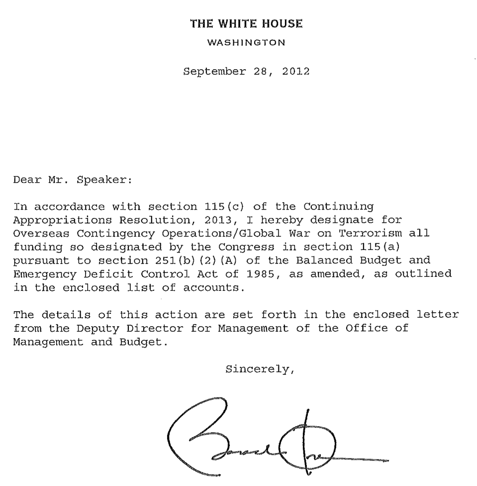 U.S. President Barack Obama allocates funding for "Overseas Contingency Operations/Global War on Terrorism" as designated by Congress. September 28, 2012.